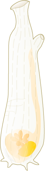 Ciona intestinalis (vase tunicate). Images are from Togo picture gallery maintained by Database Center for Life Science (DBCLS).